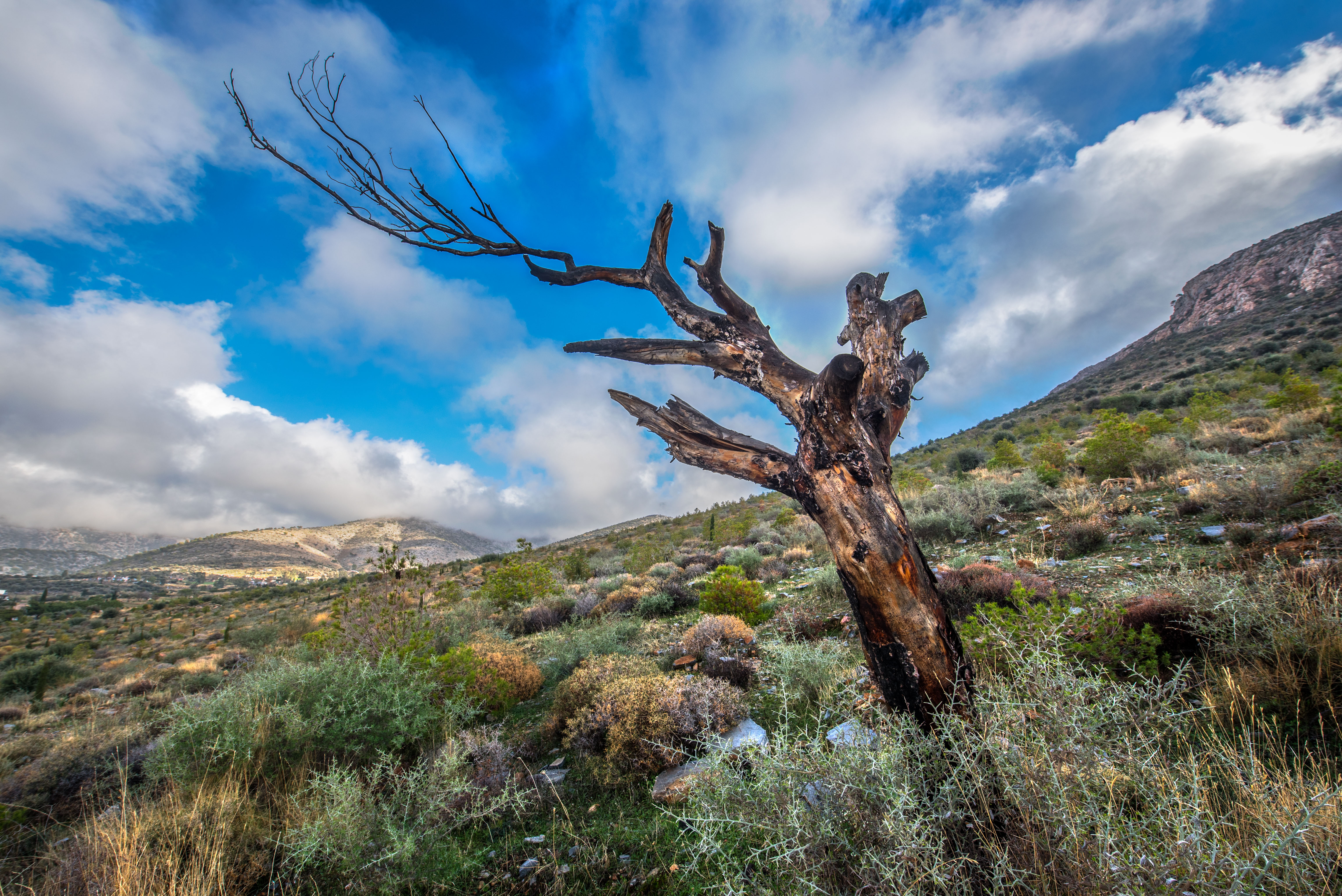 This is a photography of Natura 2000 protected area with ID GR3000006